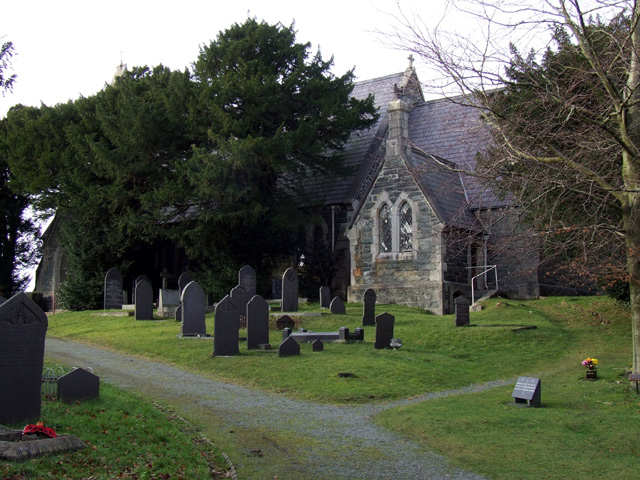 St Mary's parish church, Gelli, Tregarth, Gwynedd